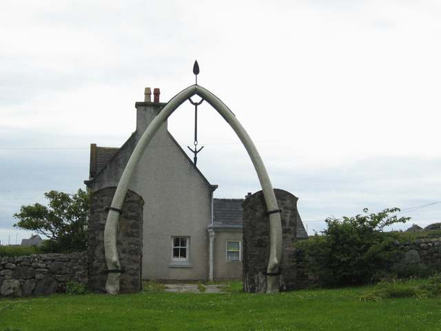 Bragar Whalebone Arch This is the Whalebone Arch erected by Murdo Morrison at his home at Bragar. It is the jawbone of a whale which was washed ashore on the west coast of Lewis in 1921 with a harpoon still embedded in it. The "stun" charge in the nose of the harpoon failed to detonate on impact and the whale escaped with the harpoon still in position. It came ashore with extensive ropes trailing from the harpoon, which now hangs as part of the monument. At some time since NB2947 : Whalebone Arch was taken, the bones have been clad in GRP. Outer Hebrides, Scotland